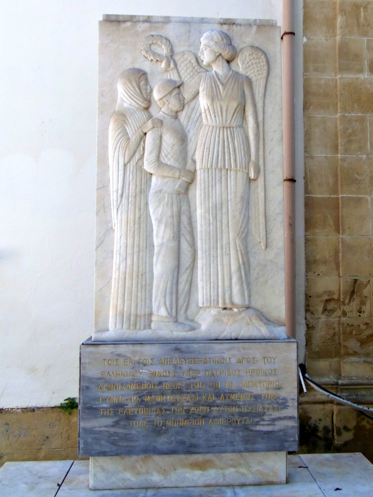 Relief, dedicated to the students and teachers, who sacrificed their lives for the freedom of Cyprus - Pancyprian Gymnasium in Nicosia, Cyprus